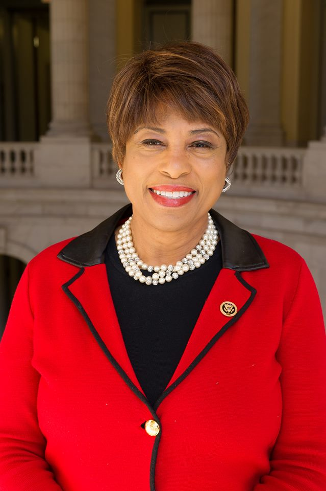 Brenda Lawrence official photo